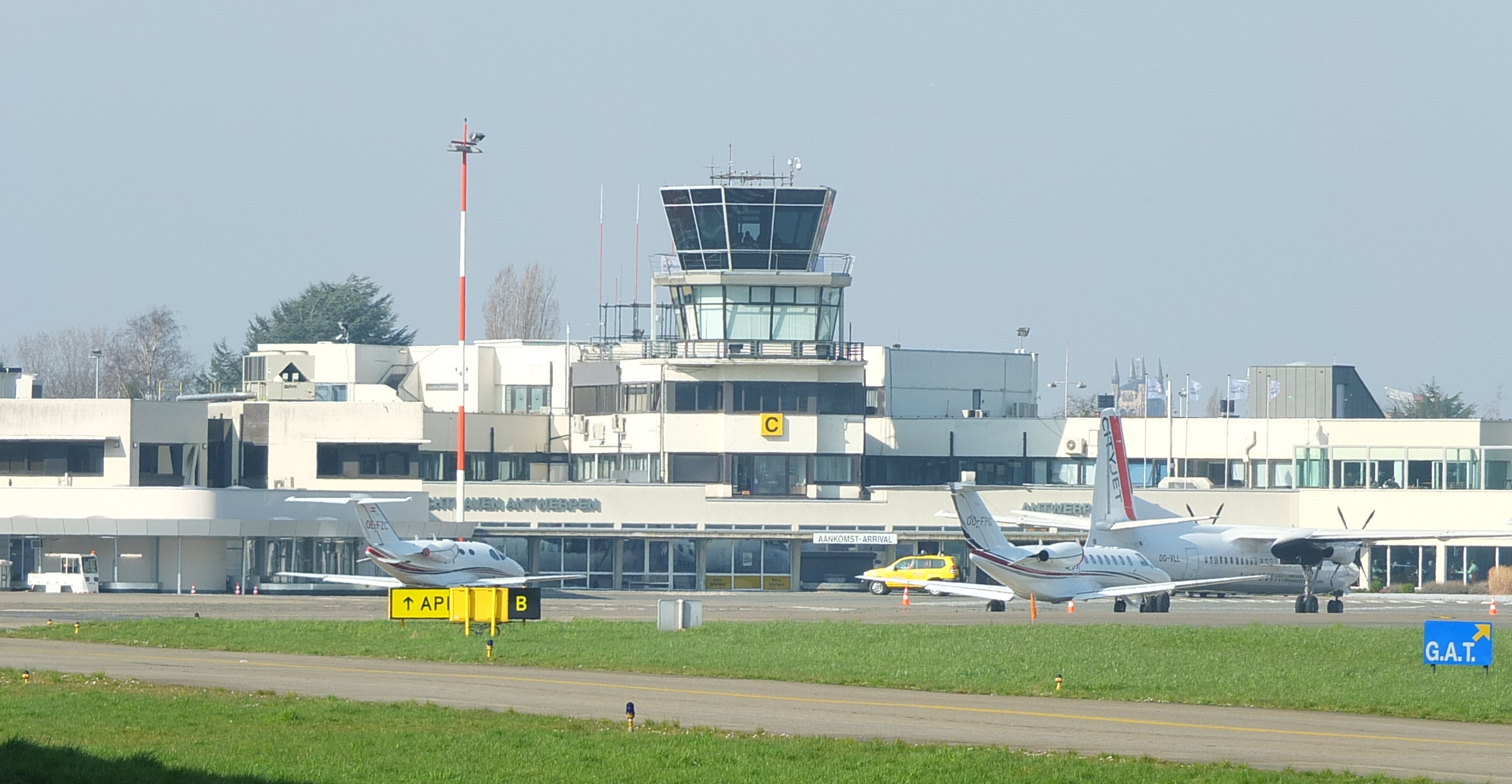 Antwerp International Airport